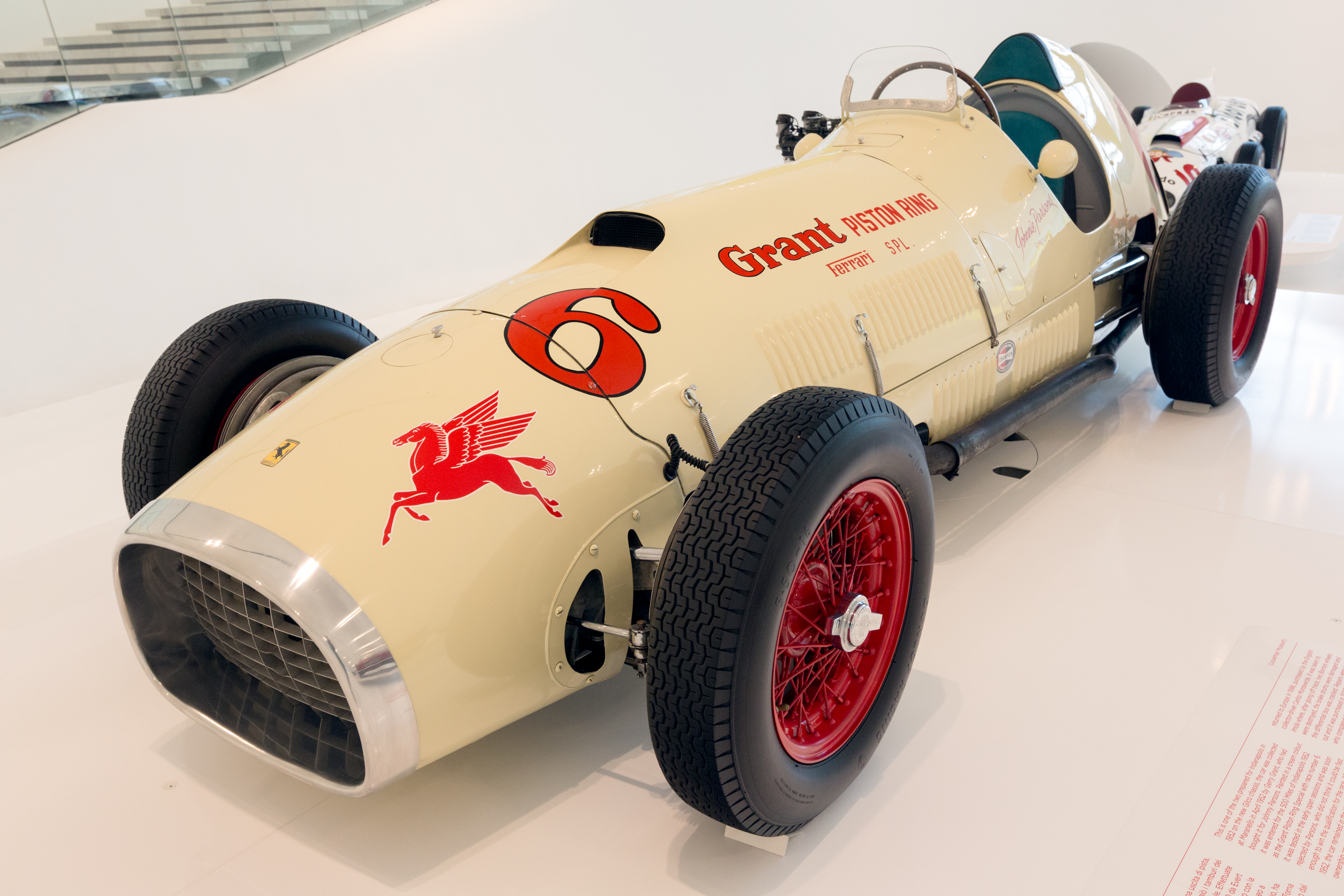 1952 Ferrari 375 Indy, driven by Johnnie Parsons (not qualified)